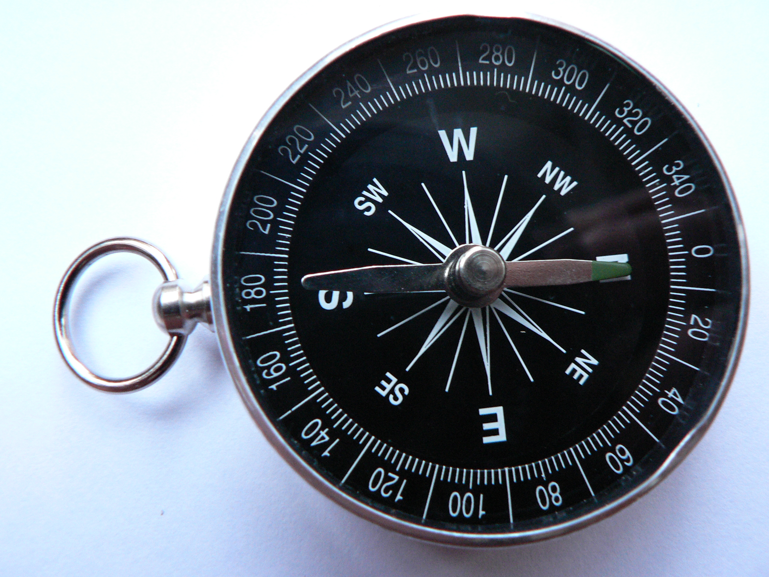 compass (kompass) bought in Sofia (next to Alexander Nevsky Cathedral)